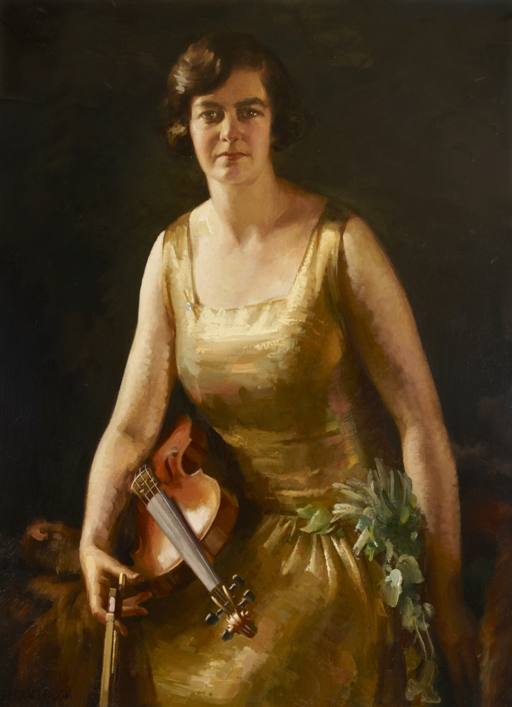 Painting by James P. Barraclough (1891-1942), painted in 1929